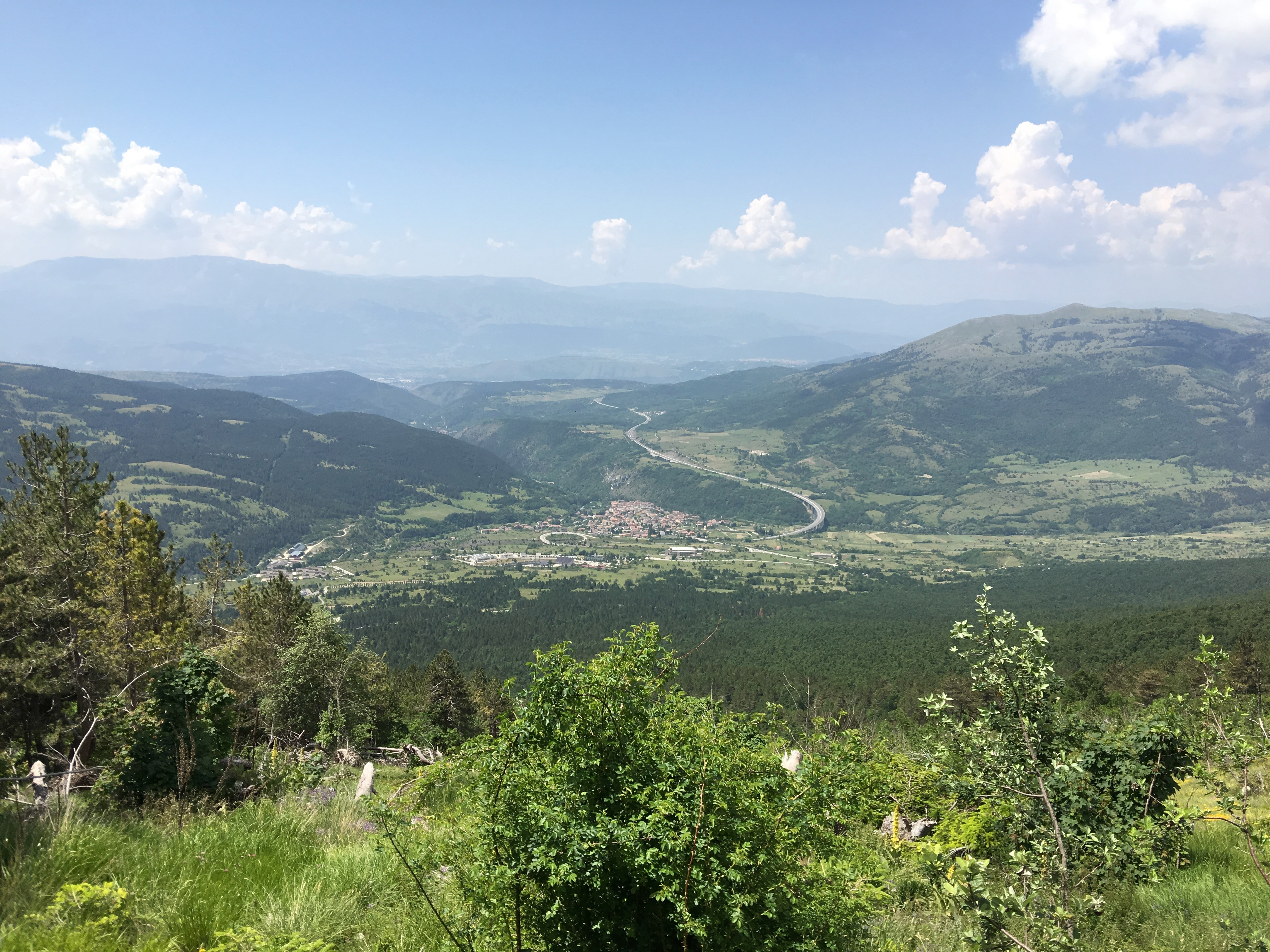 Assergi, Italy, seen from above from the side of the Pizzo Cefalone